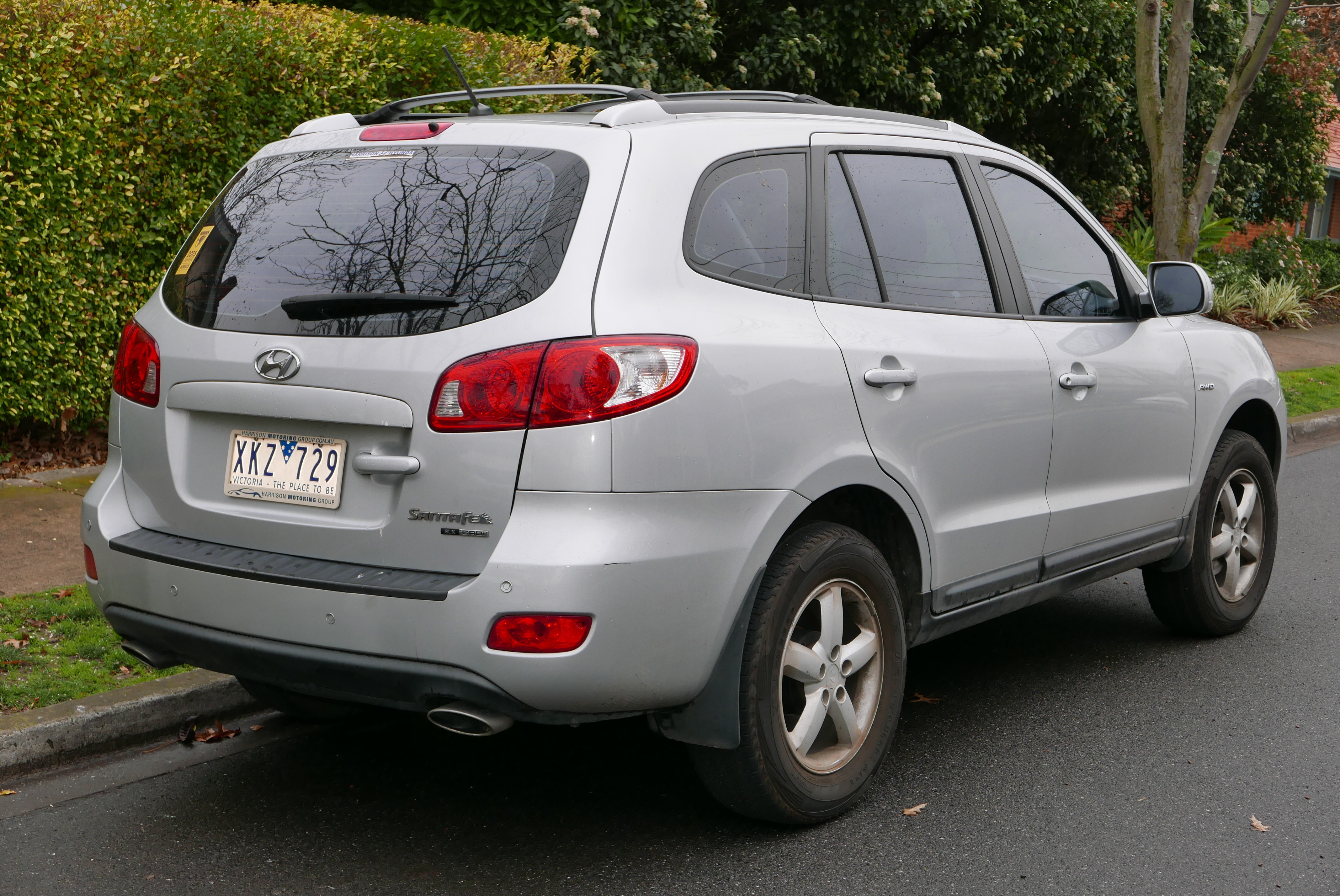 2009 Hyundai Santa Fe (CM MY09) SLX CRDi wagon. Photographed in Ivanhoe, Victoria, Australia. Vehicle registration enquiry resultsJurisdictionVictoriaRegistrationXKZ729Chassis codeKMHSH81WR9U469136Engine codeD4EB8721885Compliance date2009-04Year of manufacture2009